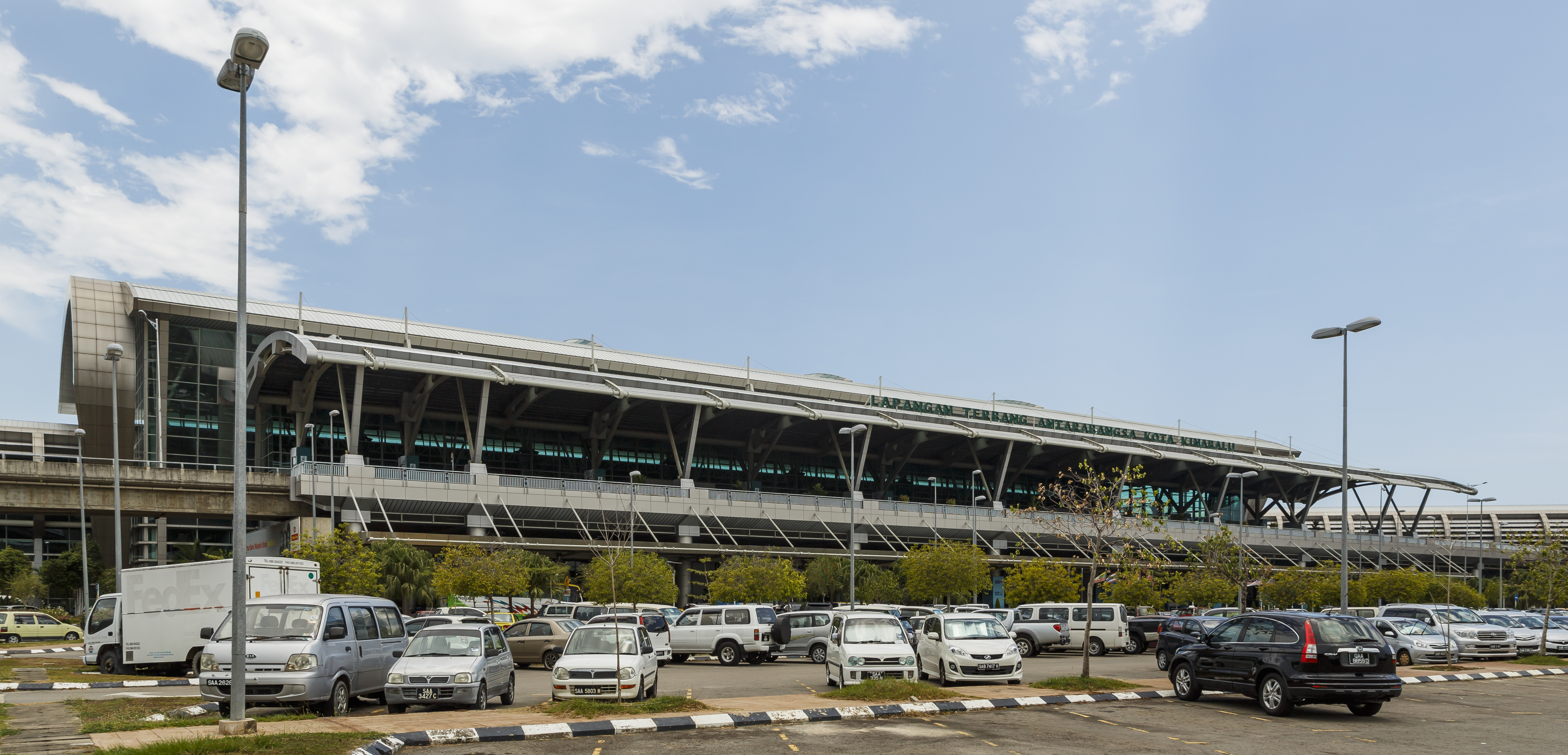 Kota Kinabalu, Sabah: Main building of Terminal 1 of Kota Kinabalu International Airport